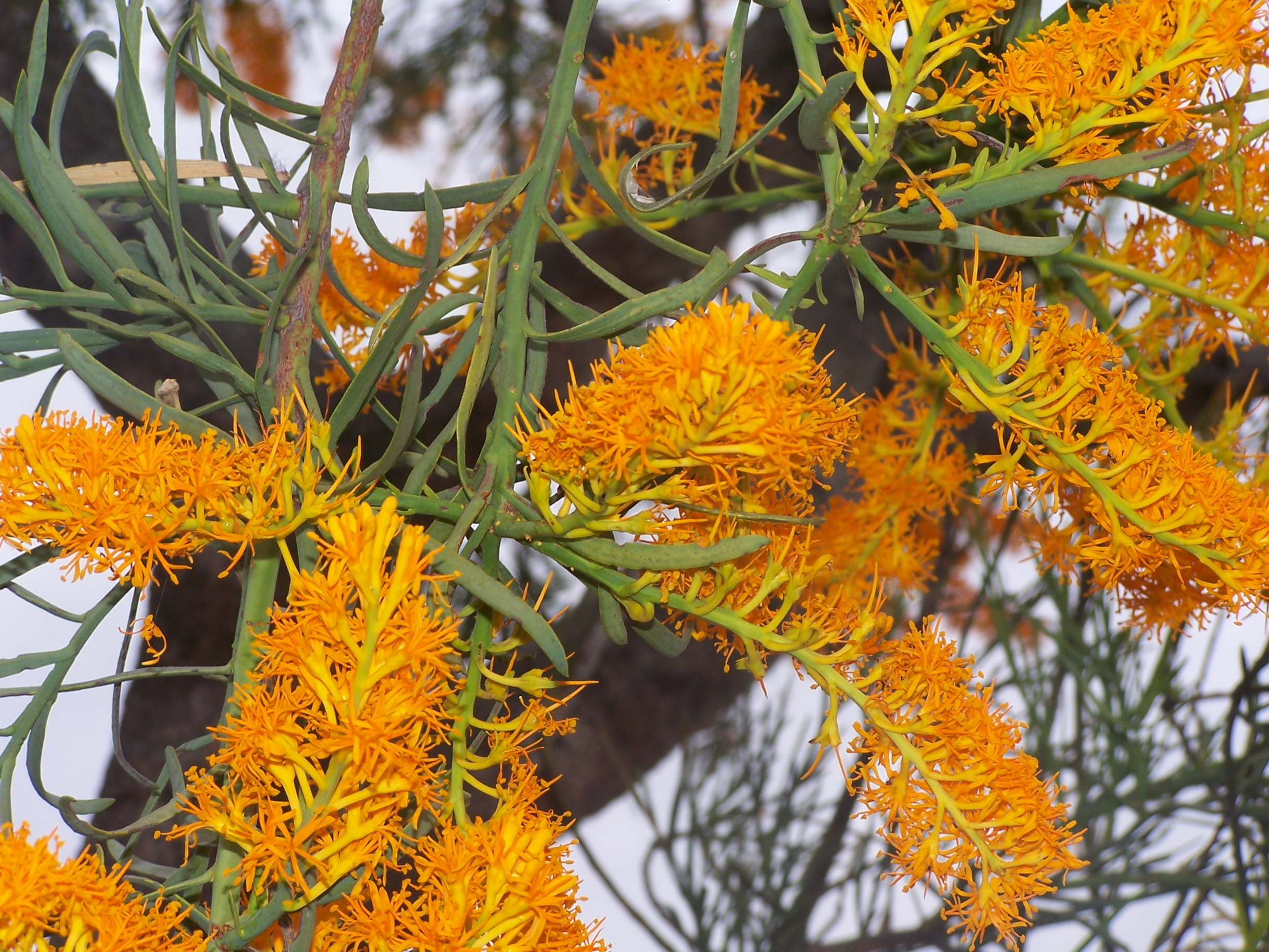 Perth The Western Australian Christmas tree (Nuytsia floribunda) is a parasitic tree found in Western Australia. It is known for its bright yellow flowers around Christmas time (summer). It can grow to 10m tall. It is a member of the Loranthaceae or mistletoe family.